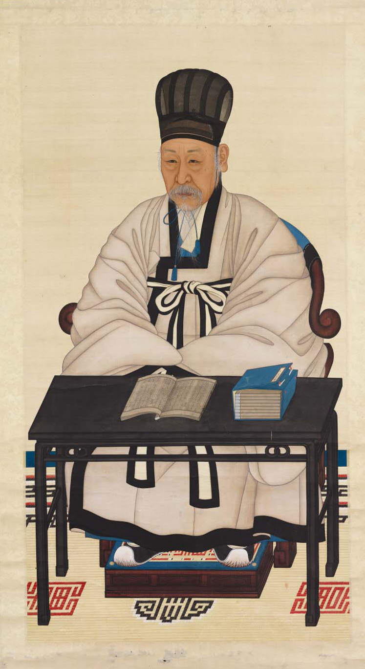 Portrait of Heojeon, Treasure of South Korea No. 1728